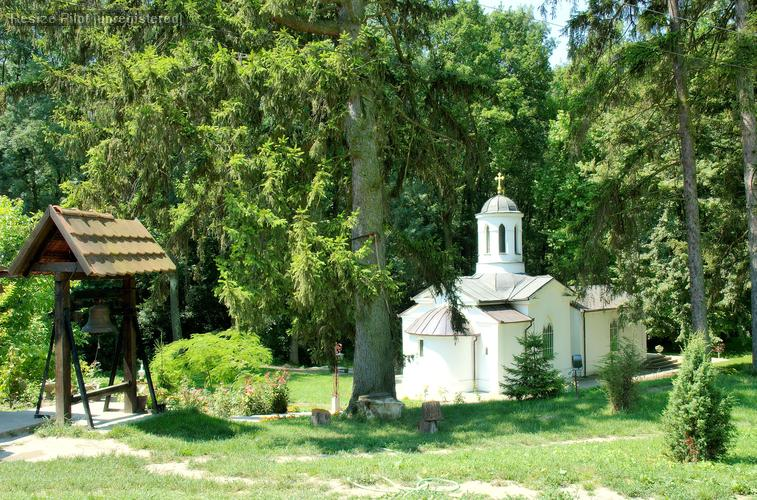 Bavanište monastery, near Kovin, Vojvodina, Serbia